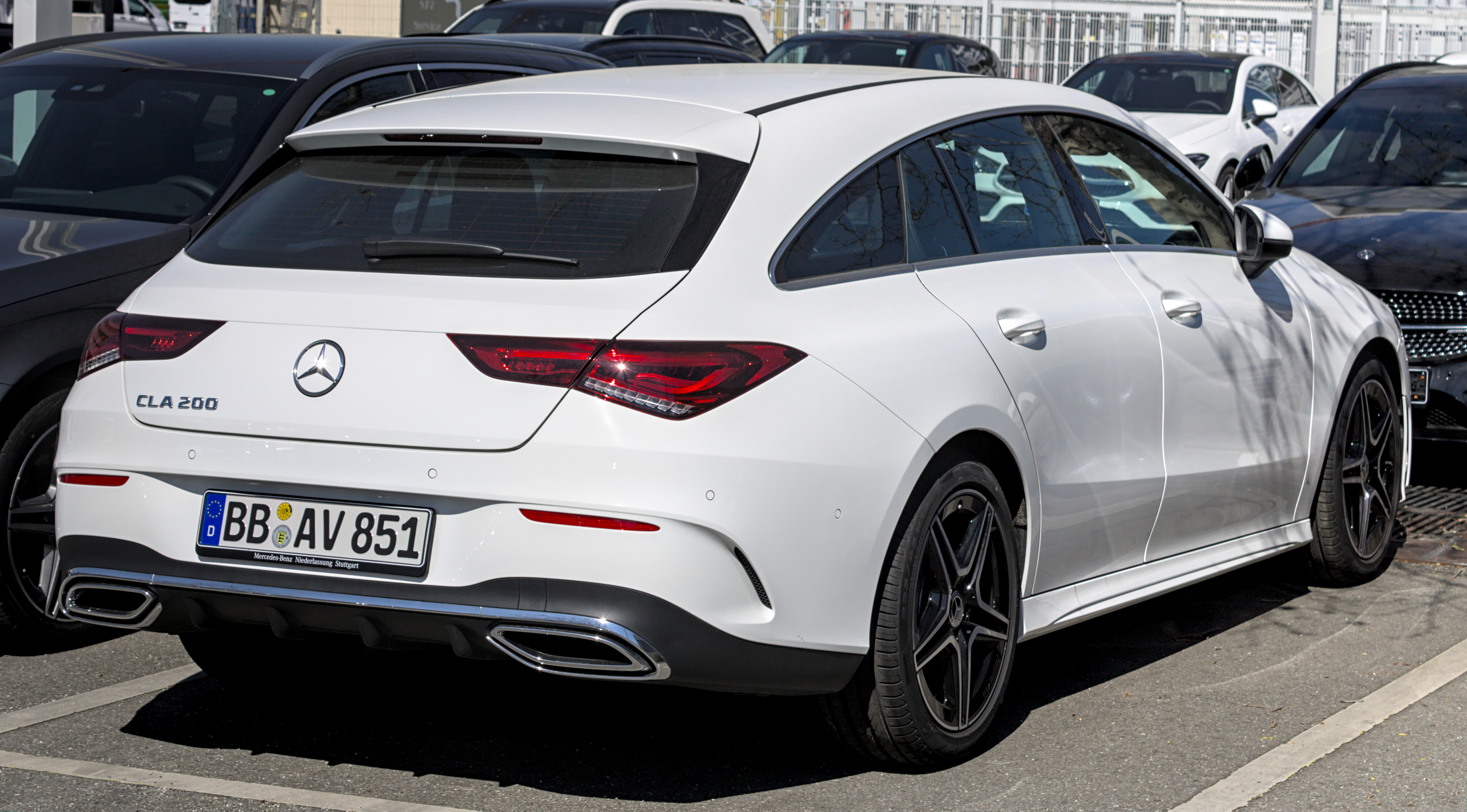 Mercedes-Benz_X118 in Böblingen